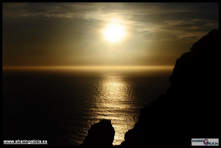 Sunset in Finisterre